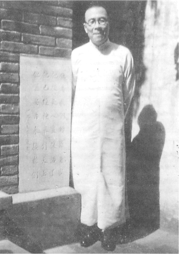 Wang Mingdao at the Christian Tabernacle in Beijing, circa 1950.